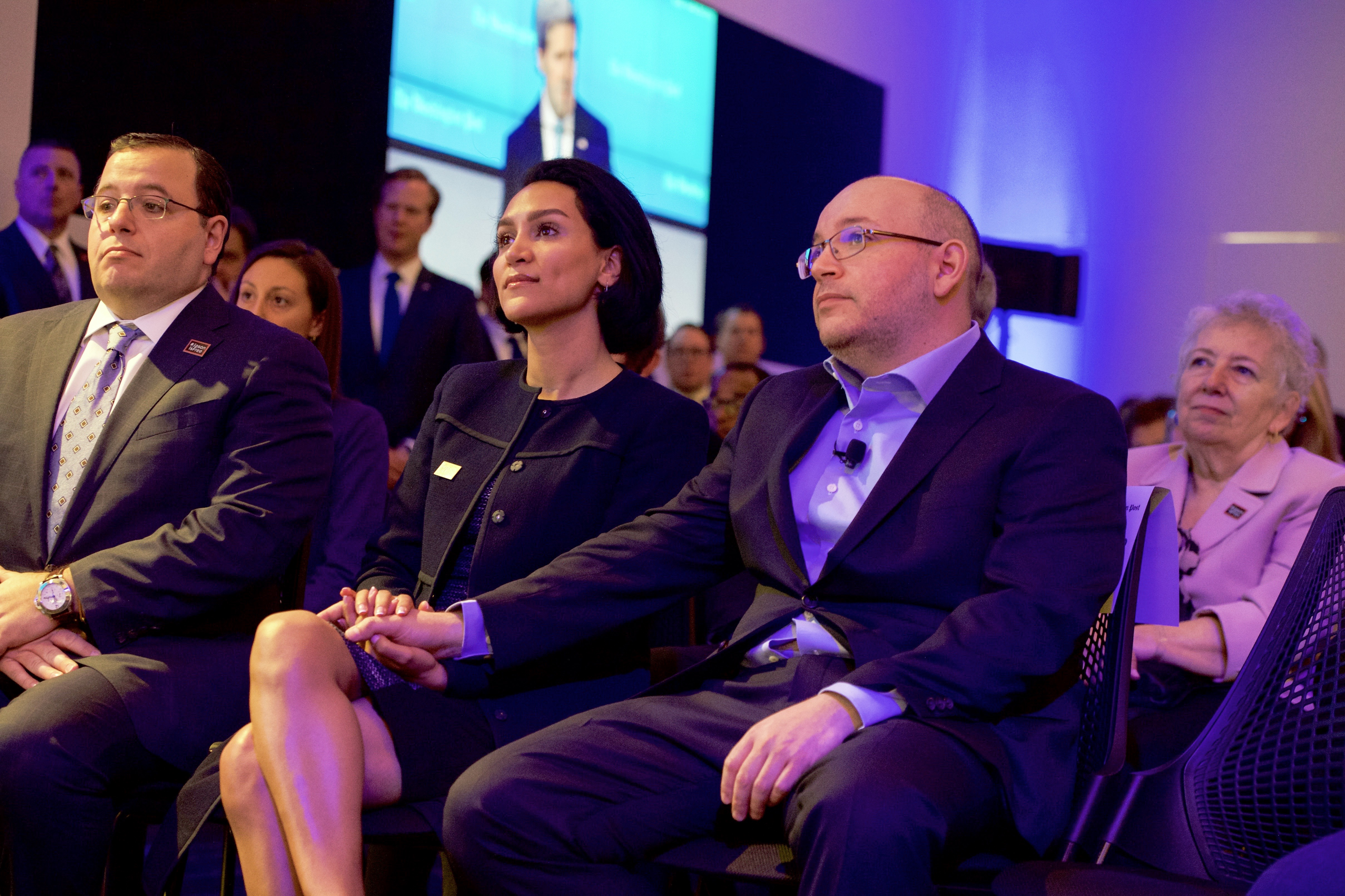 Washington Post reporter Jason Rezaian and his wife, Yeganeh Salehi, look on as U.S. Secretary of State John Kerry speaks about press freedom and his work to free Rezaian - who was unjustly held in Iran for 18 months - as the Secretary addressed a ceremony on January 28, 2016, to dedicate the new Post headquarters in Washington, D.C. [State Department photo/ Public Domain]